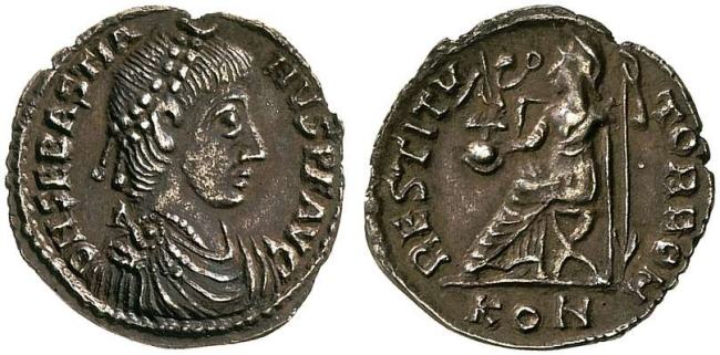 Siliqua of Sebastianus, Roman usurper 412-413, co-emperor of Jovinus